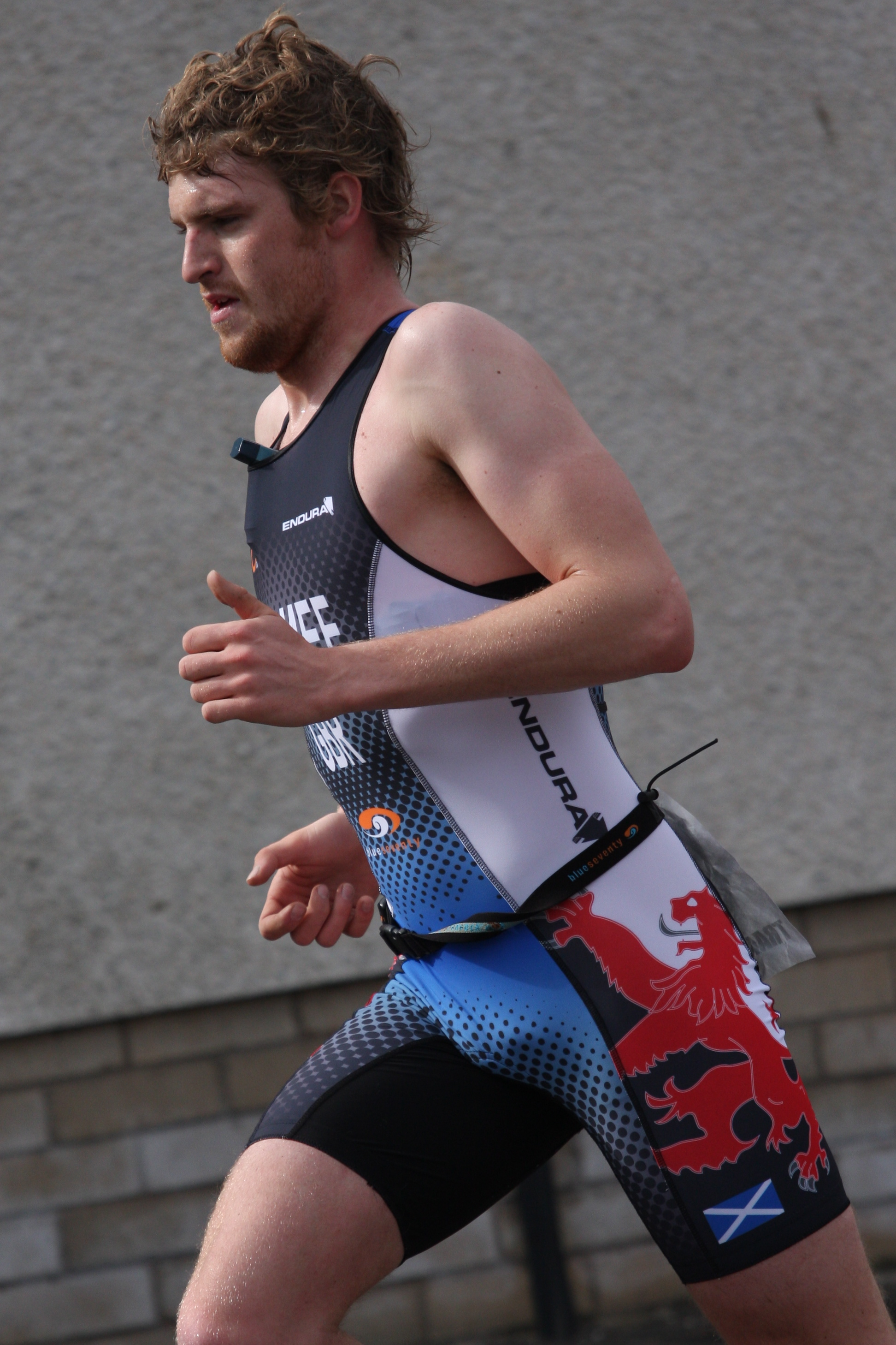 Scottish triathlete David McNamee